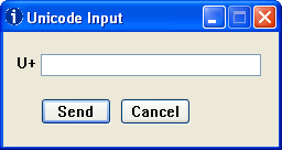 Window (popup) used to allow user to specify input unicode hexadecimal number to program UnicodeInput.